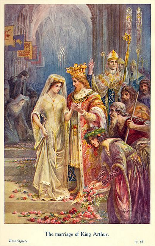 The Wedding Of Arthur And Guinevere.